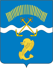 Zaozyorsk (Murmansk oblast), proposal coat of arms